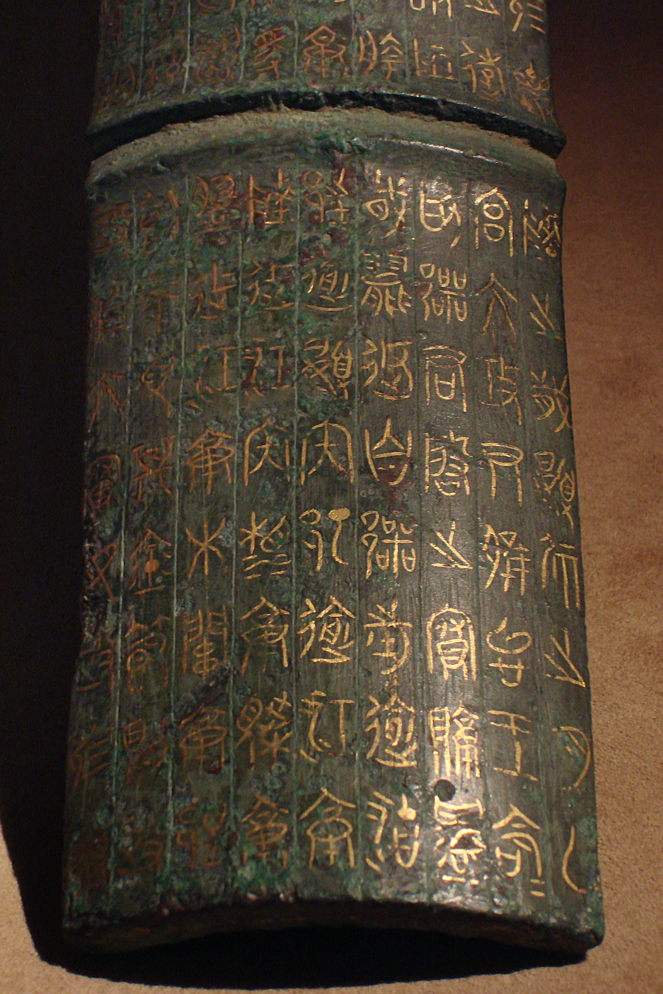 Bronze zhou jie with gold inlay. Warring States Period (475 - 221 B.C.) Excavated at Shou County, Anhui Province, 1957 This shou jie (shipping pass) was issued by the King of Chu to Prince Qi, Lord of E. Prefecture. Such permits, reserved for royalty and aristocrats, specified the kind and quantity of goods to be transported; they also stated tax exemptions and tariffs. Verification of its authenticity consisted of the perfectly fitted halves of a section of bamboo.